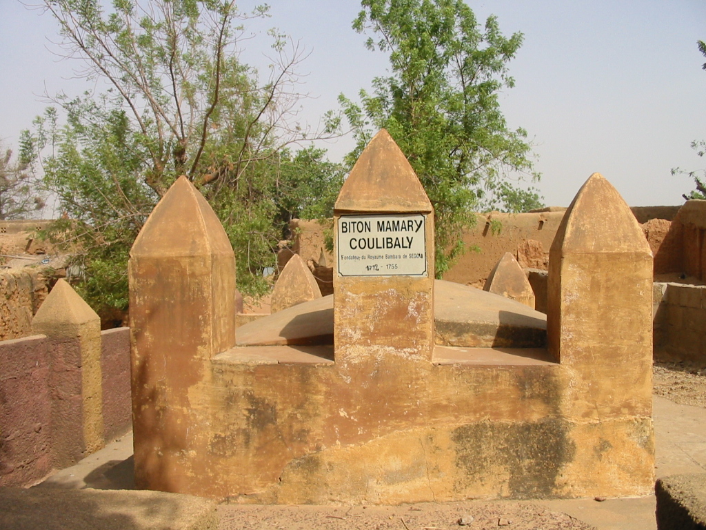 Grave of Biton Mamary Coulibaly (1712-1755), near Segou, Mali.